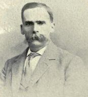 Frank Oliver Title: Personnel of the Senate and House of Commons, eighth Parliament of Canada, elected June 23, 1896 Publisher: Montreal, Lovell Date: 1898 Possible Copyright Status: NOT_IN_COPYRIGHT